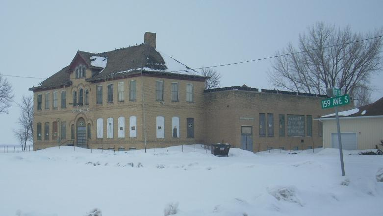 Comstock Public School, a property listed on the National Register of Historic Places located in Clay County MN.